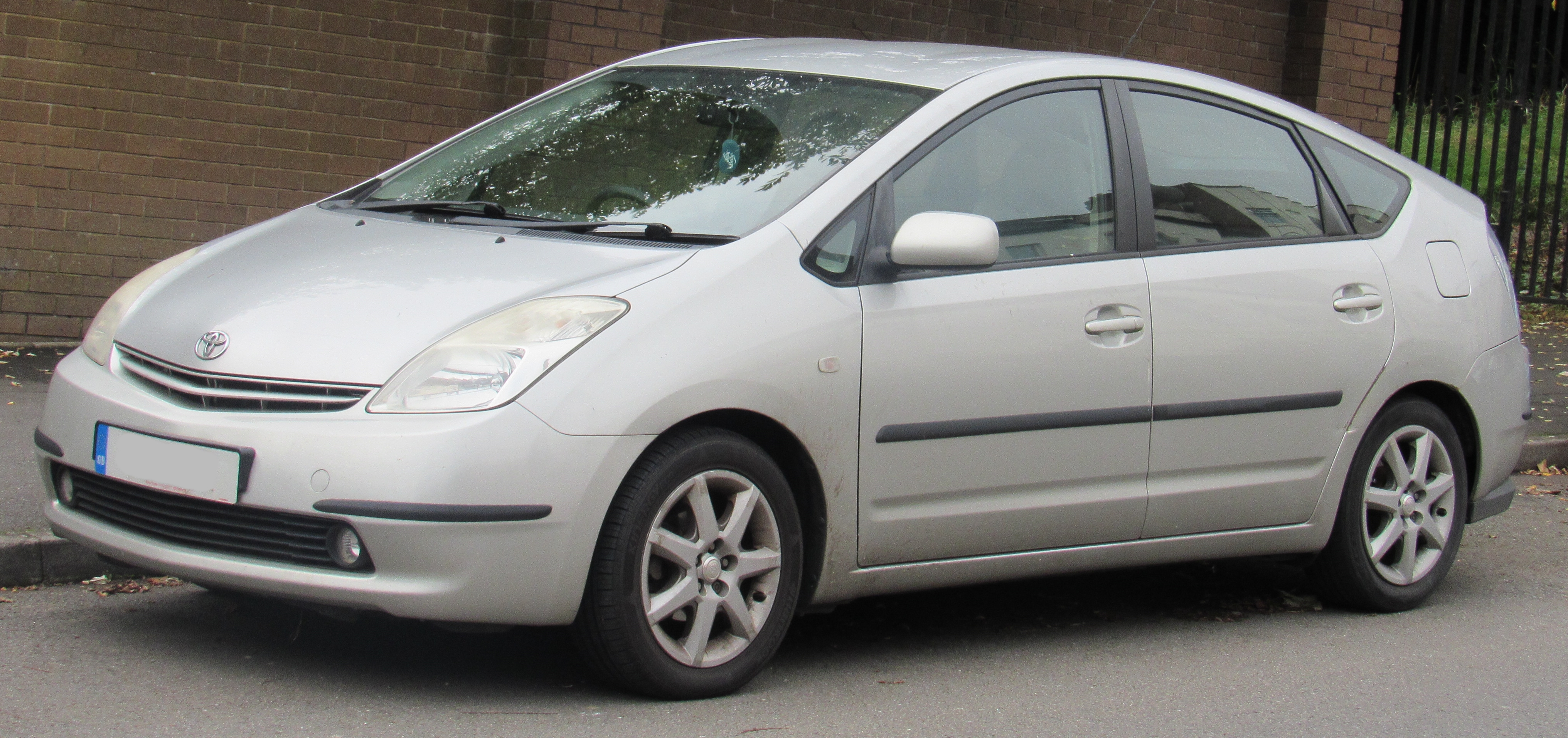 2005 Toyota Prius T Sprint VV-I Automatic 1.5 Front Taken in Leamington Spa